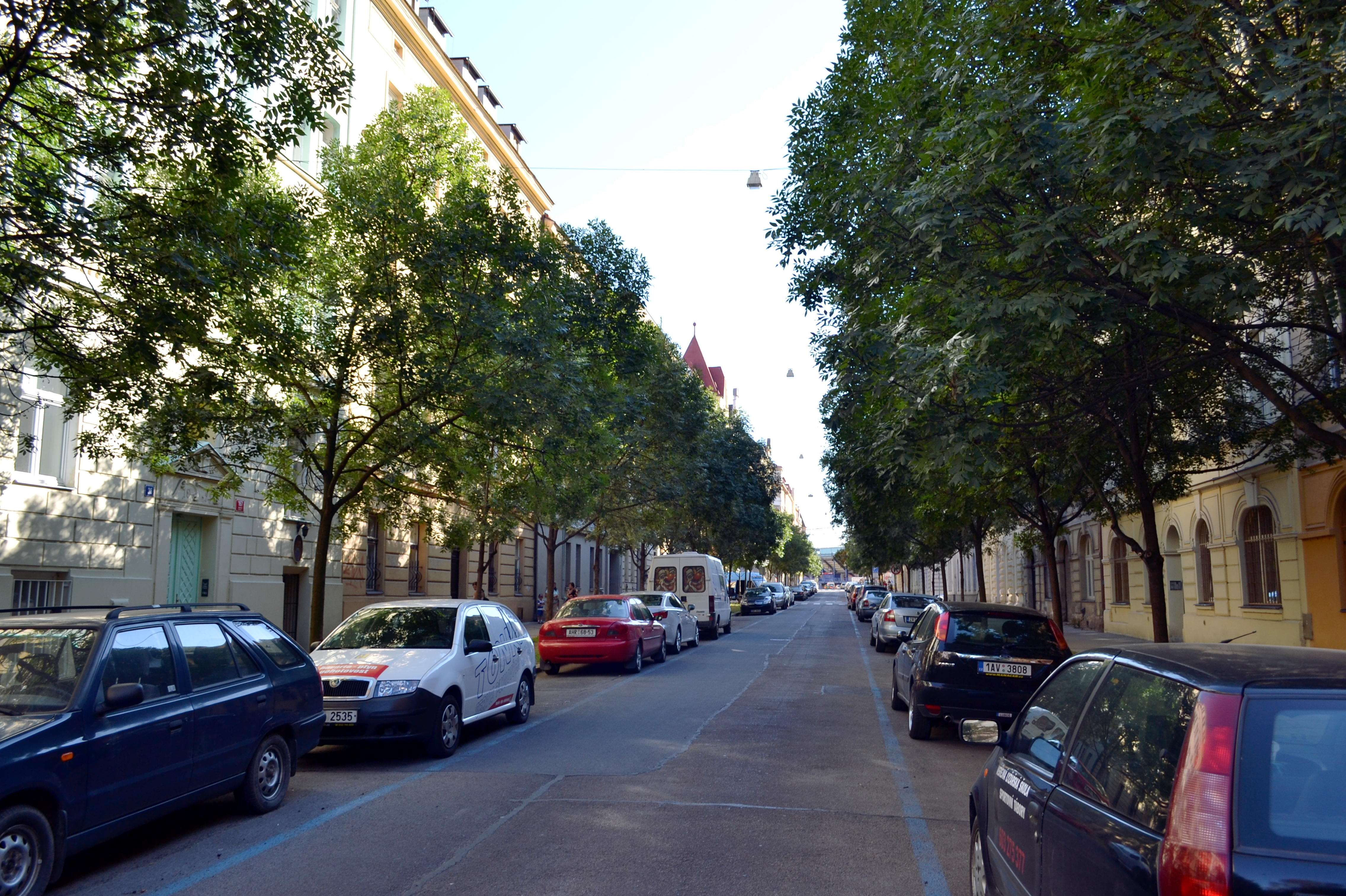 Jana Zajíce street in Bubeneč in Prague 7, Czech Republic. View from Nad Královskou oborou street towards U Sparty street.